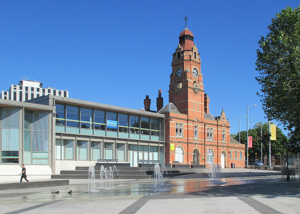 Sneinton Market Place and Victoria Leisure Centre Early on what was to be a very hot and sunny June day.